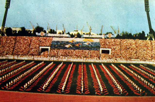 Stadionul 23 August - Universiada 1982